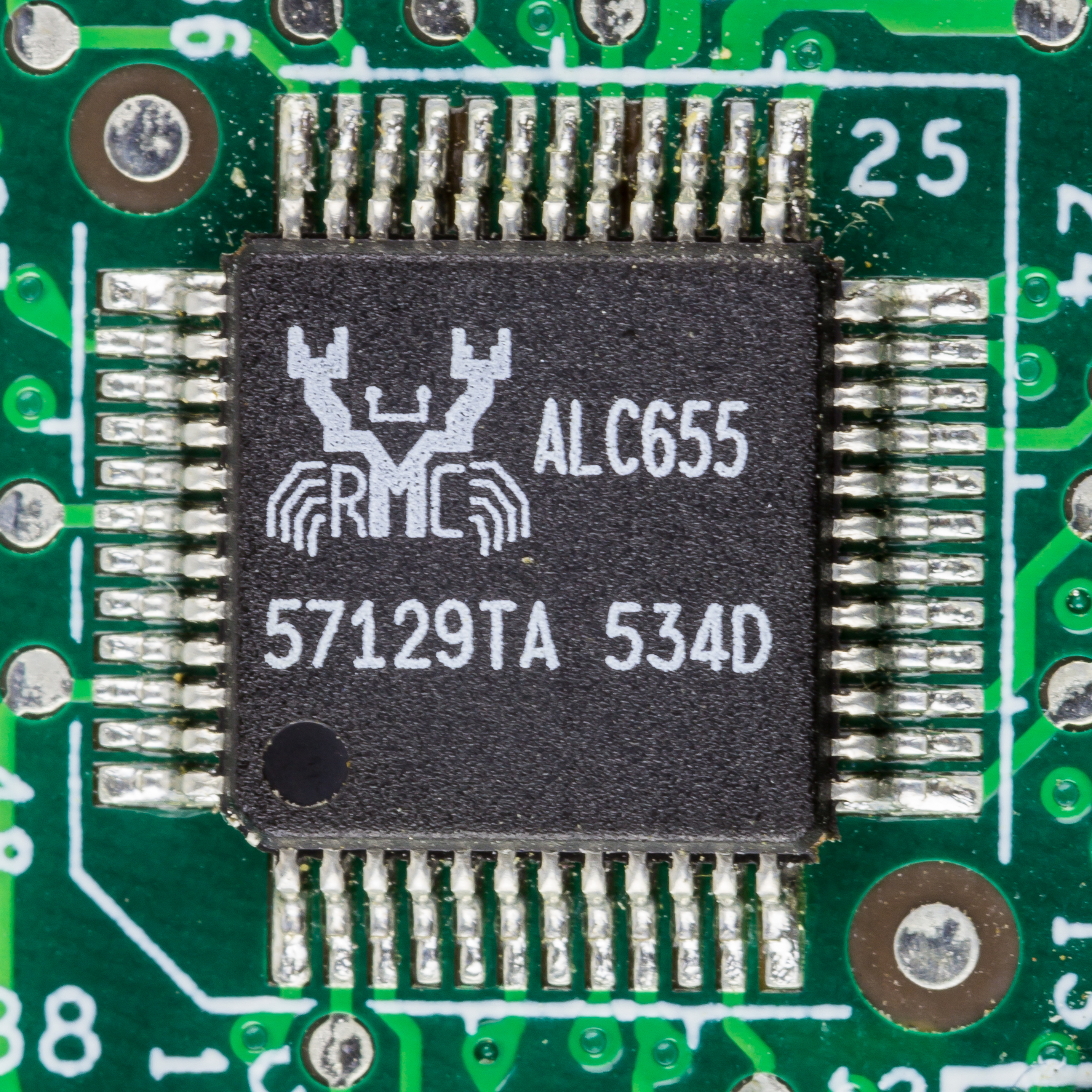 Yakumo Notebook 536S - Realtek ALC655 - Six Channel AC'97 2.3 Audio Codec. Package: 48-Pin LQFP